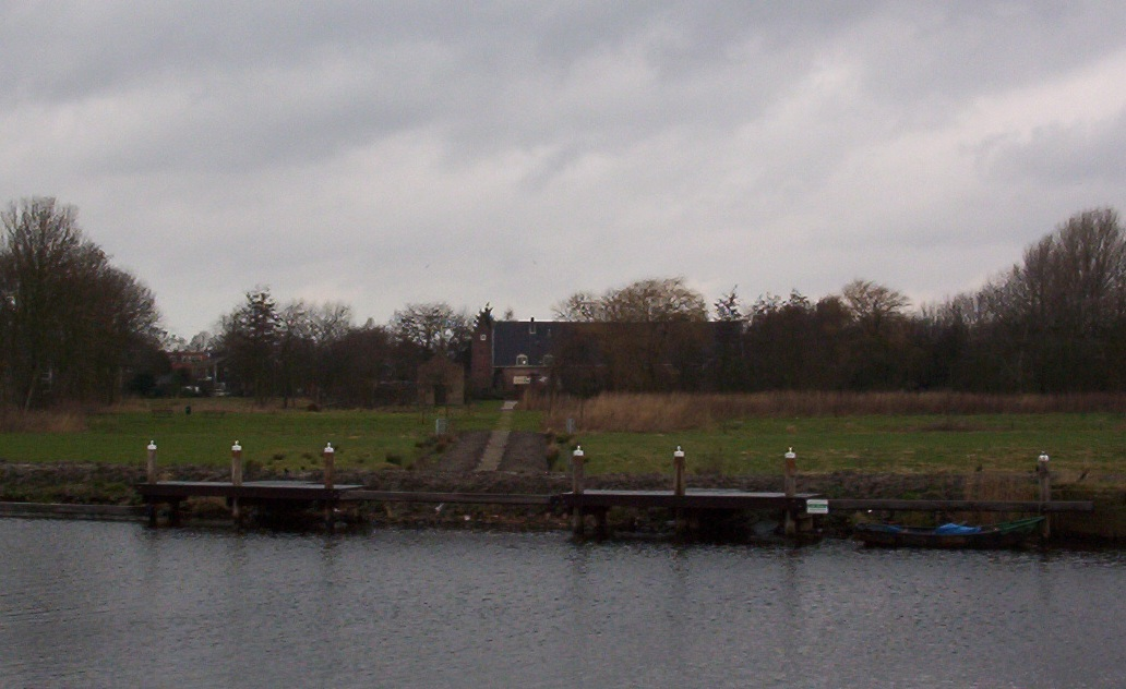 Boat landing for the park 'Slot Heemstede'. Photo from south side of the Ringvaart canal.